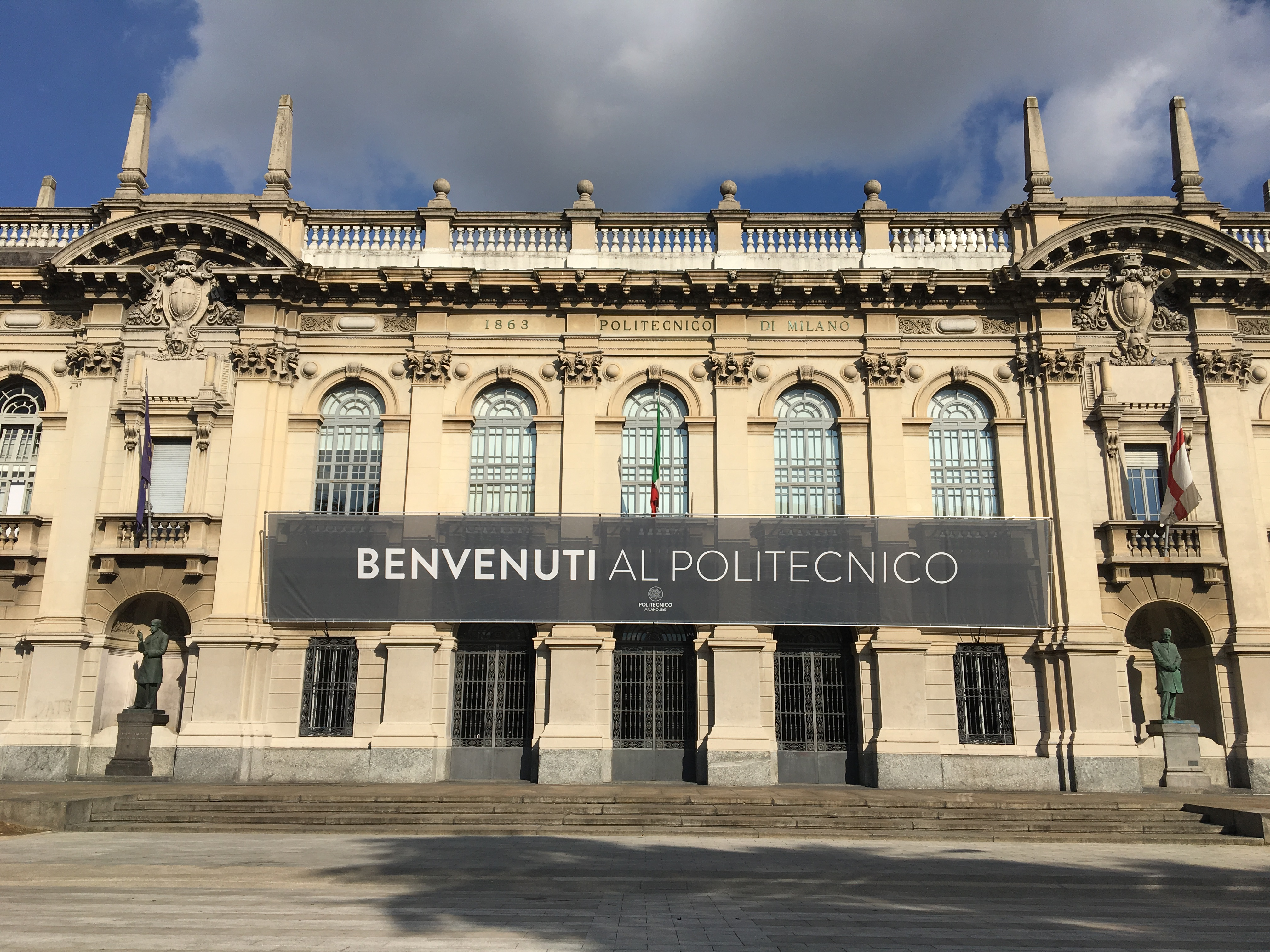 Leonardo Campus